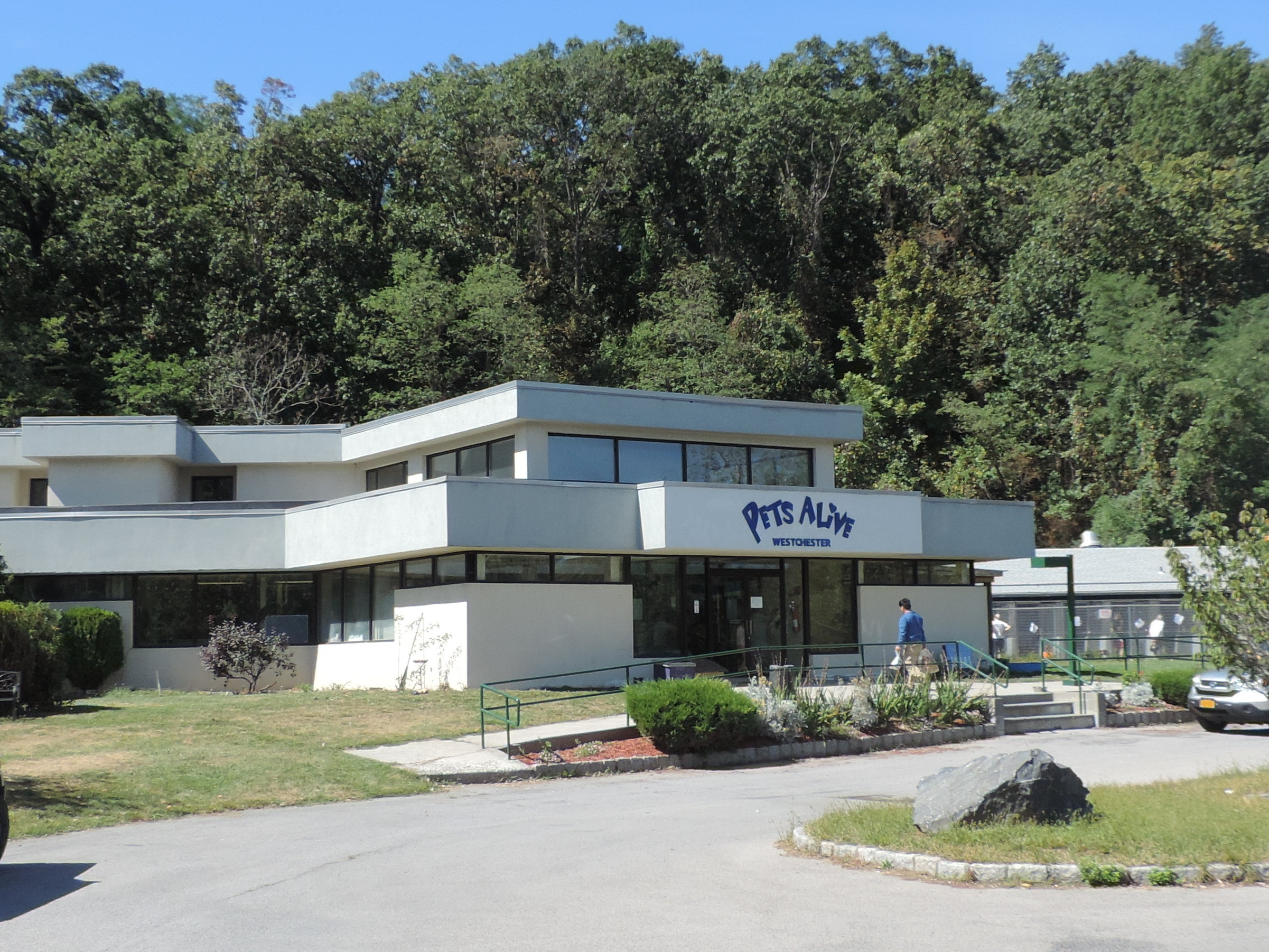 Looking northwest at animal shelter on a sunny midday.